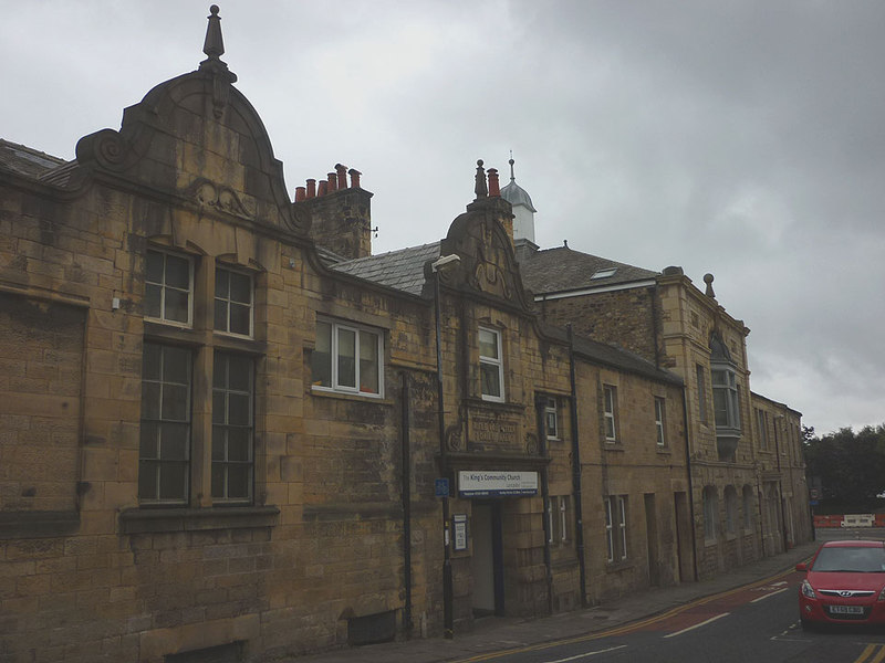 Former World War One Drill Hall, Phoenix Street, Lancaster